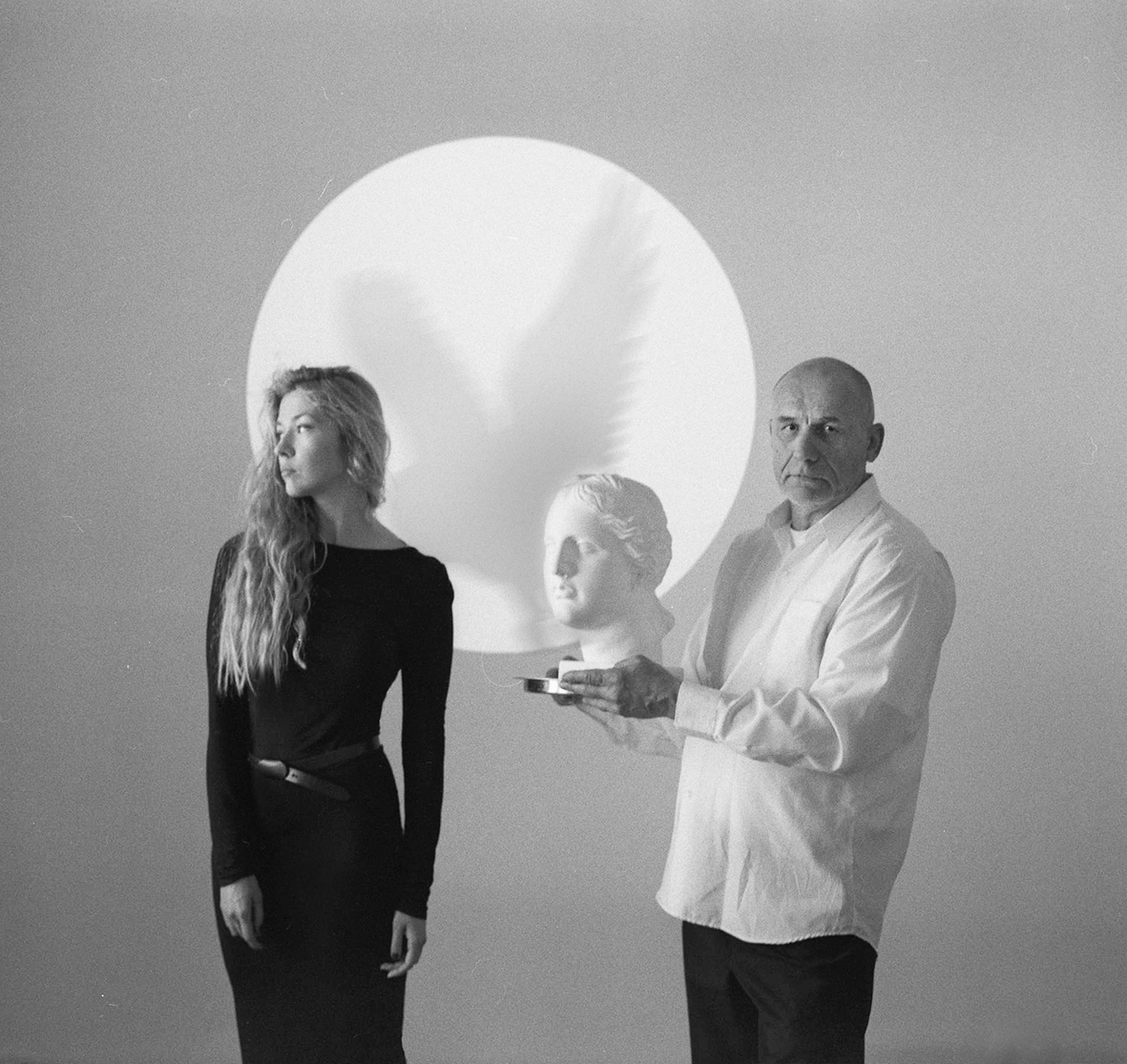 Tatyana Sherstyuk and Victor Skersis for "Owls are not what they seem". Photo by Natalya Tazbash.